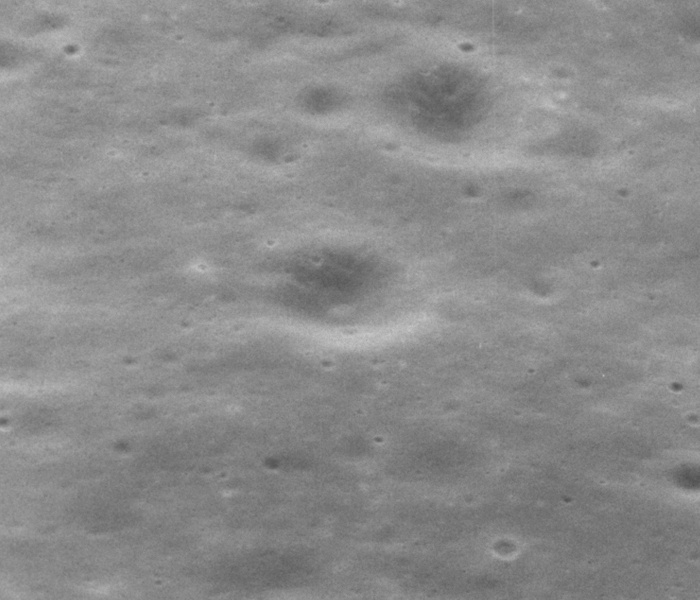 Oblique view of Palmetto (center), north of the Apollo 16 landing site, Descartes Highlands, on the moon. This is cropped from a Hasselblad camera closeup image of the site taken from lunar orbit during Apollo 14. The crater in upper right is called Gator.